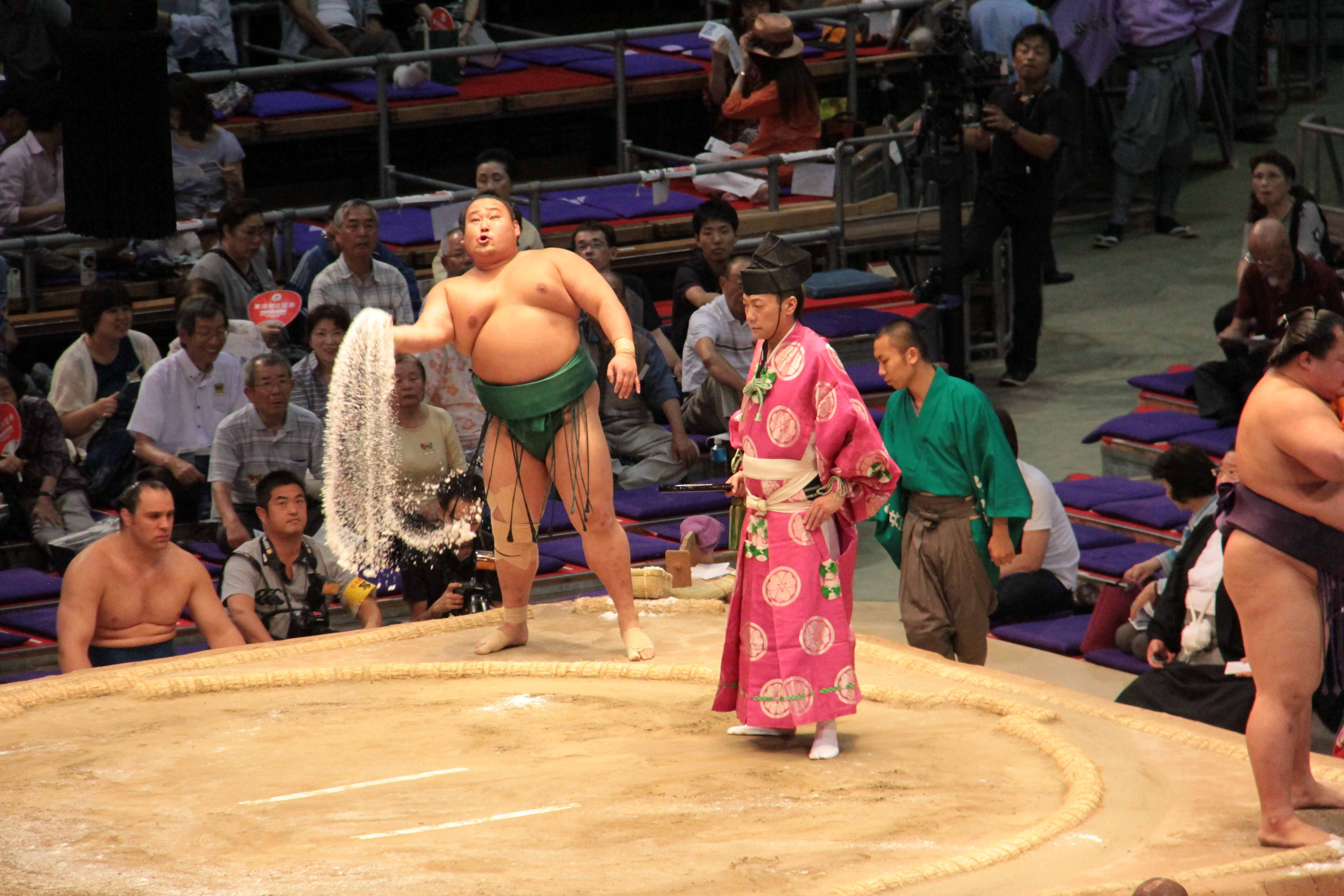 Sumo wrestler Asahishō Kōta throws salt in the Nagoya Grand Sumo Tournament, Japan